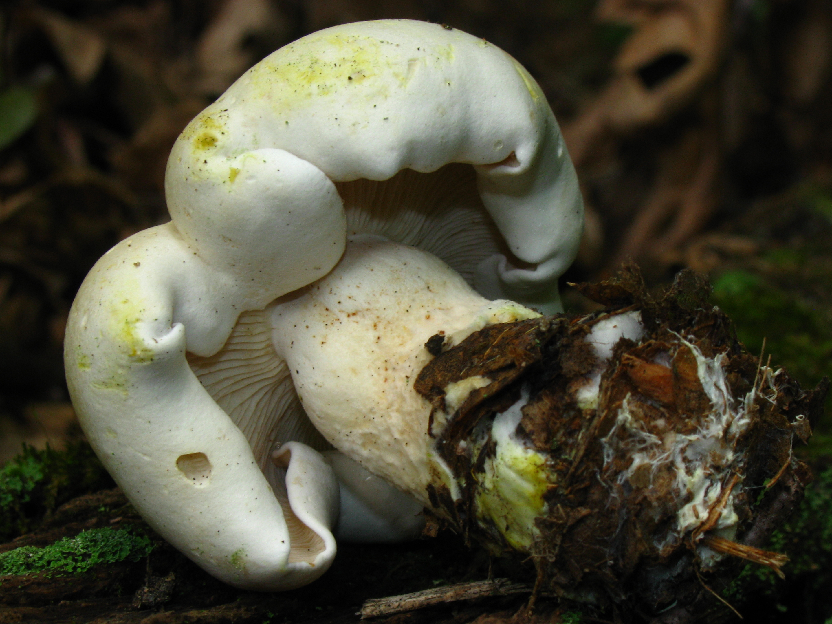 A fruit body of the agaric fungus Tricholoma sulphurescens Bres. Photographed in Strouds Run State Park, Athens, Ohio, USA.